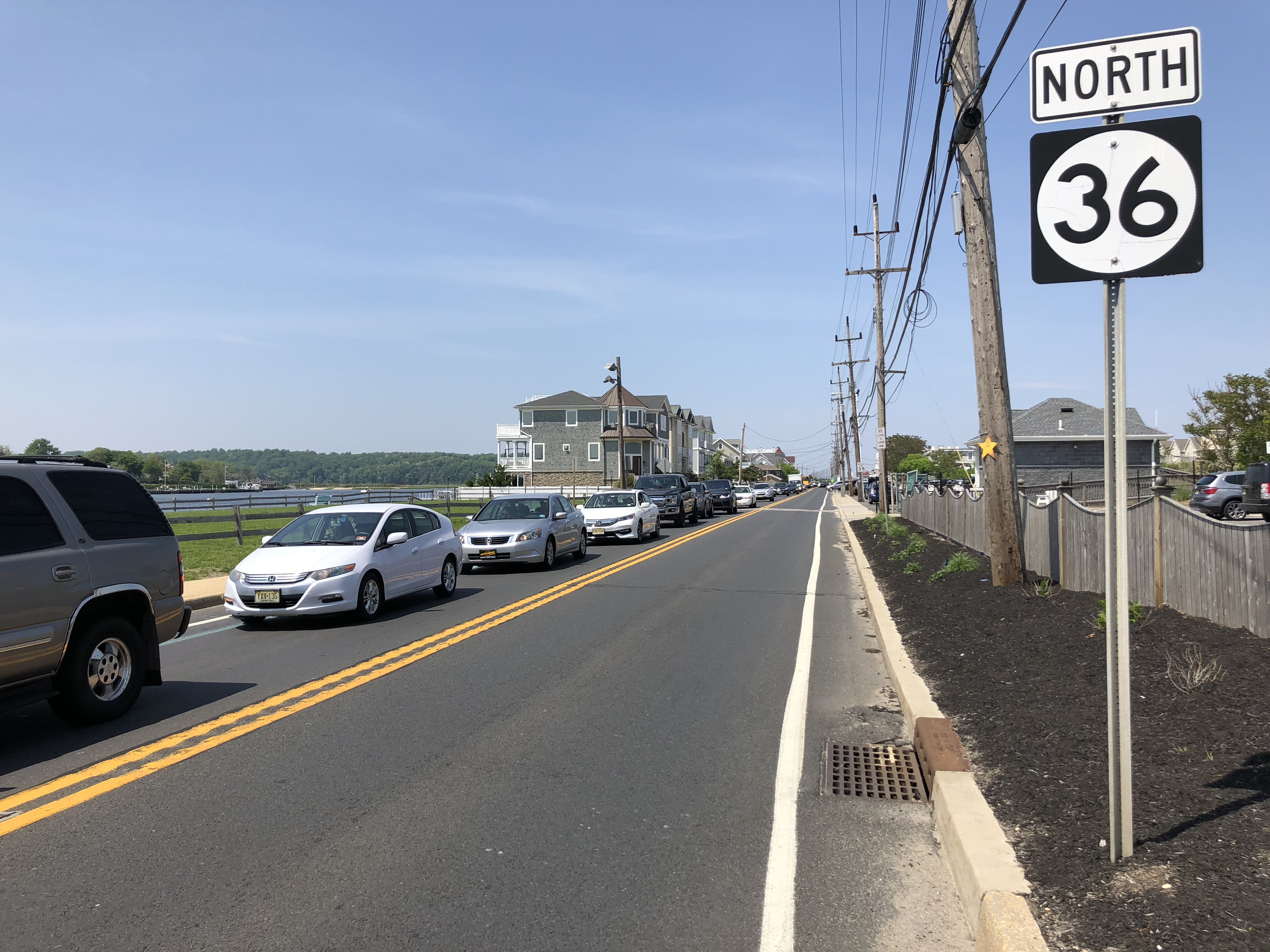 View north along New Jersey State Route 36 (Ocean Avenue) just north of Monmouth County Route 520 (Rumson Road) in Sea Bright, Monmouth County, New Jersey